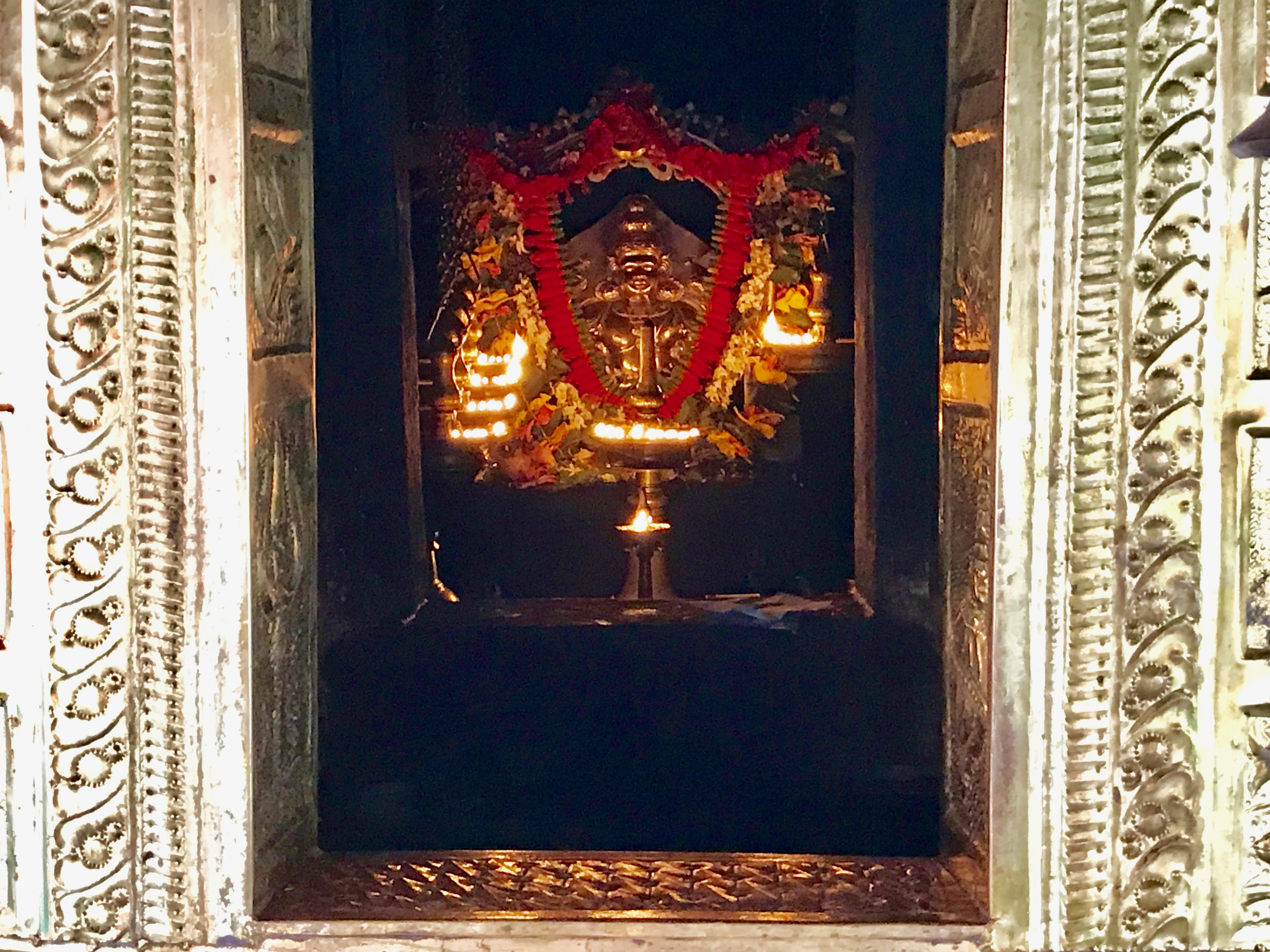 A Surya temple in Kerala India Soorya Kshetram, Sun temples of Southwest India, Western Ghats The temple dedicated to Sun god of Hinduism, also features iconography of Vishnu avatars, Shiva, Ganesha, Parvati, Saraswati, Lakshmi, Brahma and other gods and goddesses.